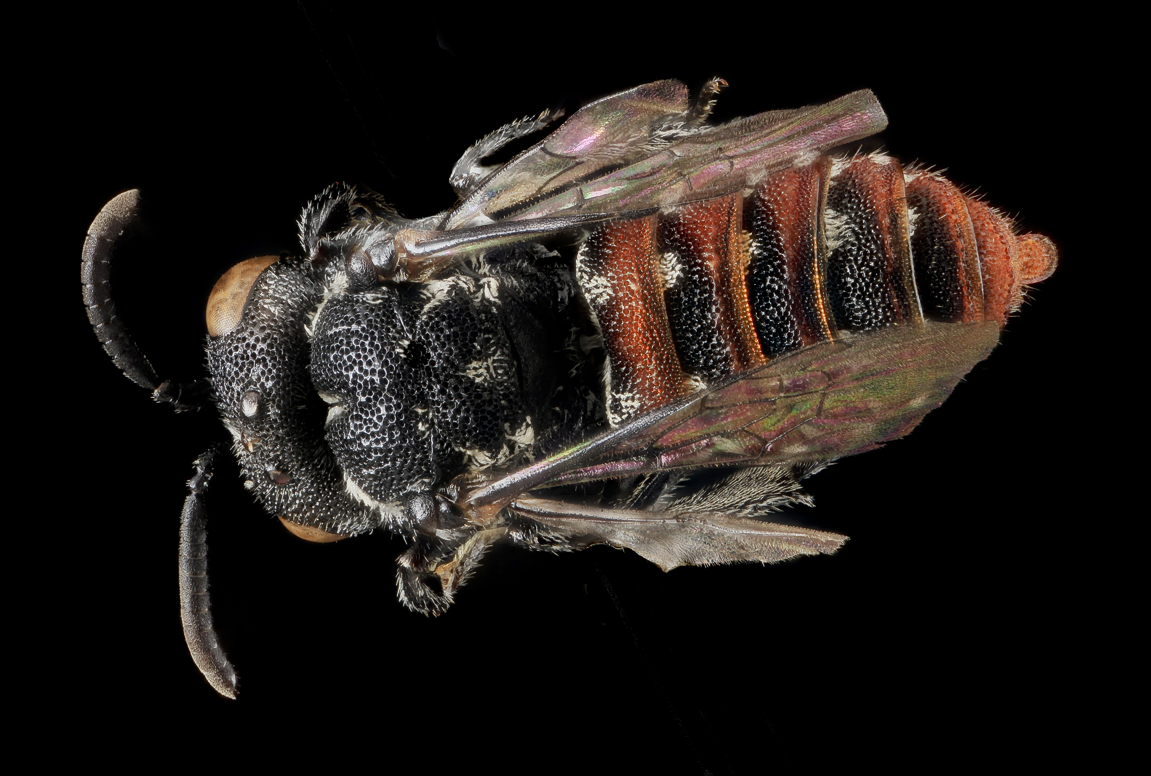 Holcopasites calliopsidis - The nest parasite of Calliopsis andrenisformis, both host and parasite are tiny, nothing more than little dots flying around the construction dirt piles, school yard playgrounds, and packed dirt paths they love. Collected by Tim McMahon, Photographed by Brooke Alexander, and Photoshoped by Ann Simpkins